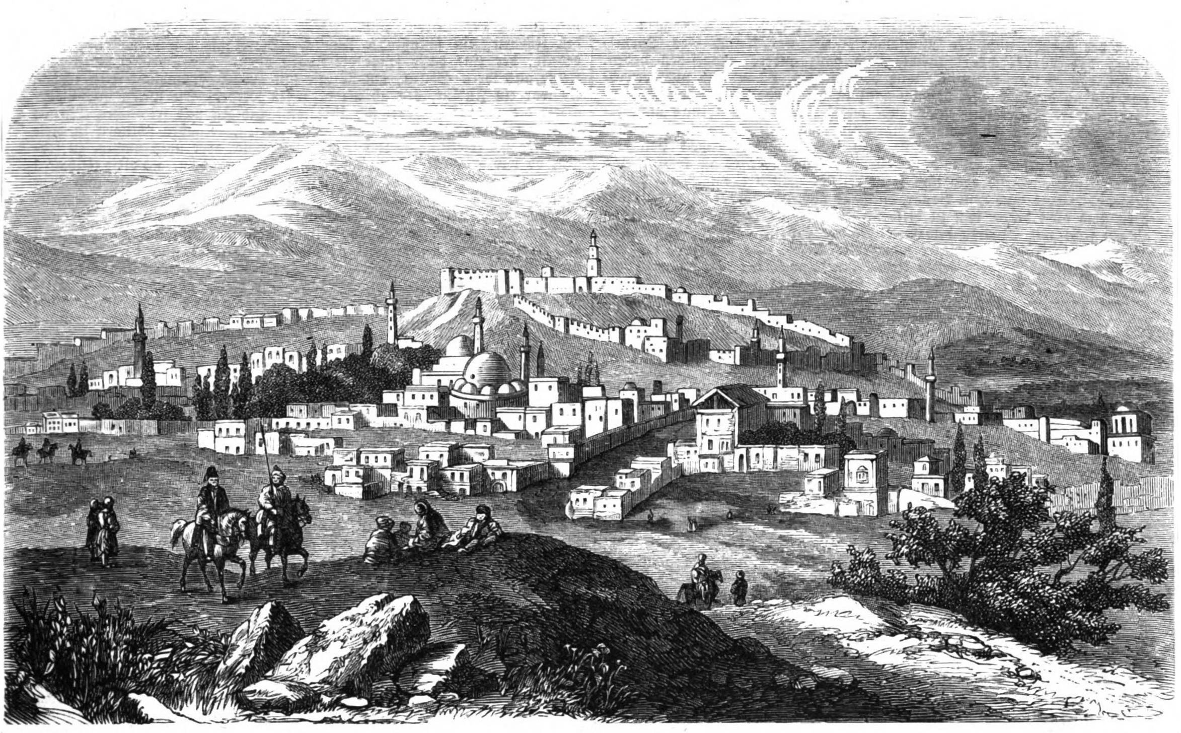 caption: "Ansicht von Erzerum."